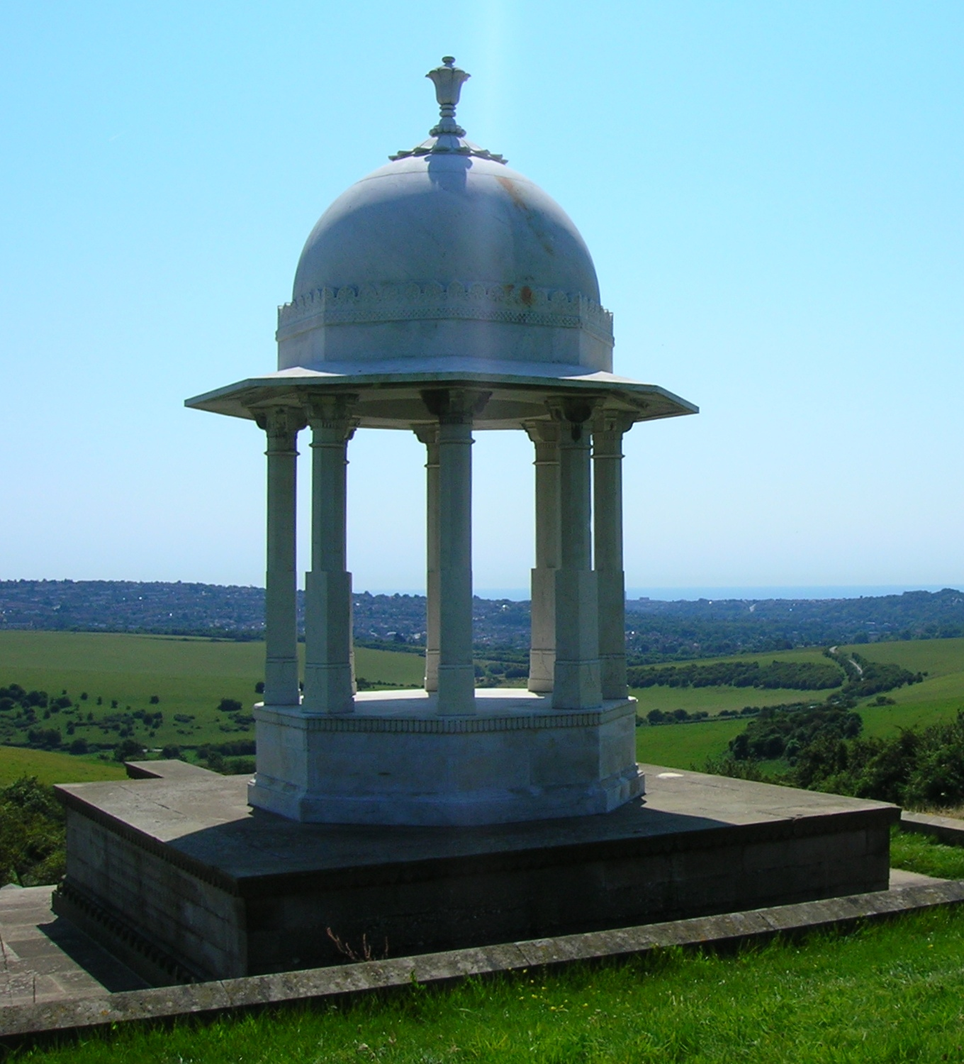 The Chattri, a war memorial commemorating Indian soldiers in the First World War who had been treated at the Royal Pavilion in Brighton, which was used as a makeshift hospital. It stands on the South Downs above the city of Brighton and Hove.